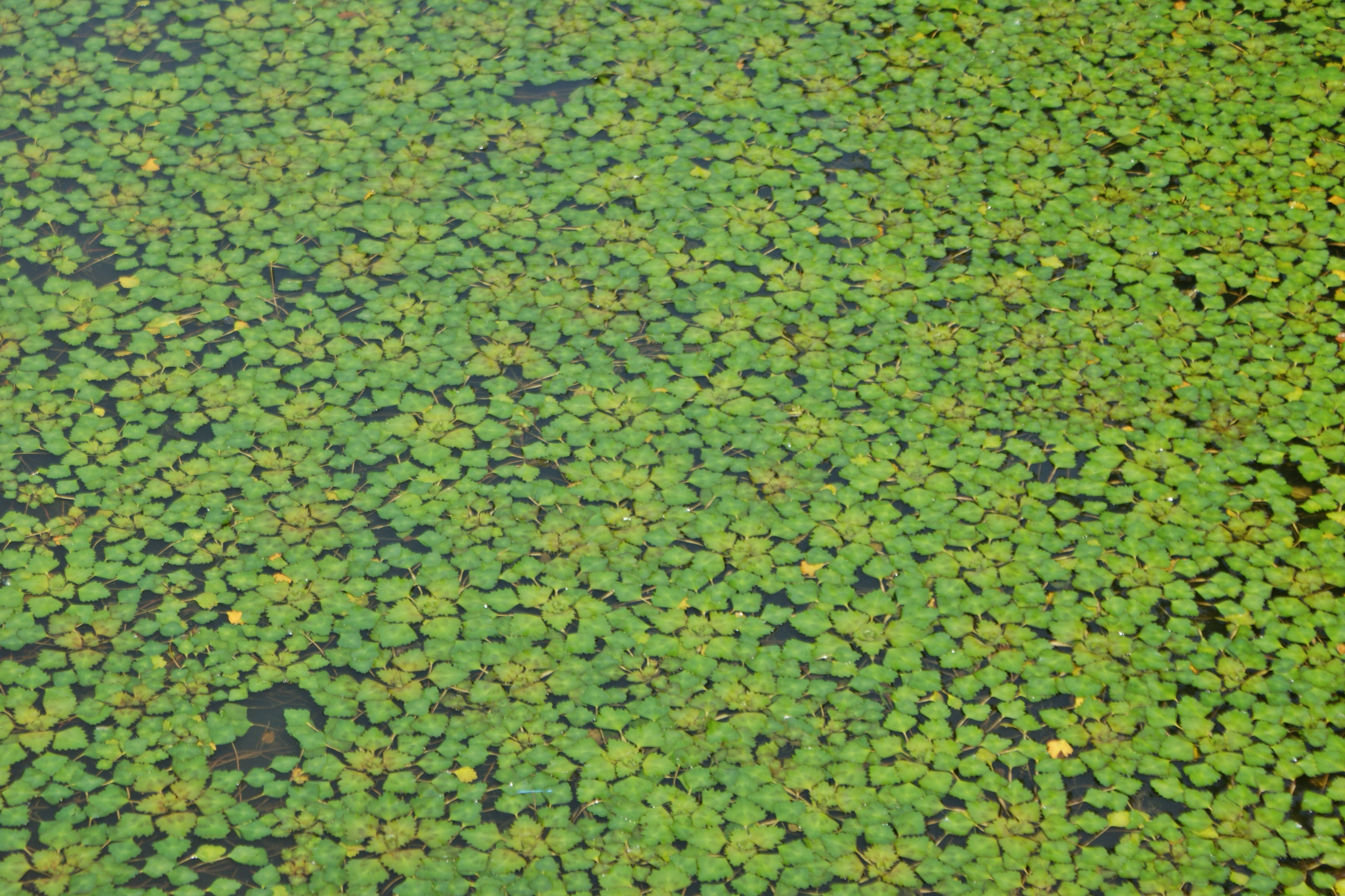 Trapa natans in the Arboretum in Glinna (NW Poland)